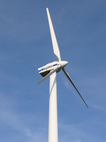 A windmill in Sweden. – JMT (T) 08:43, 11 March 2007 (UTC)